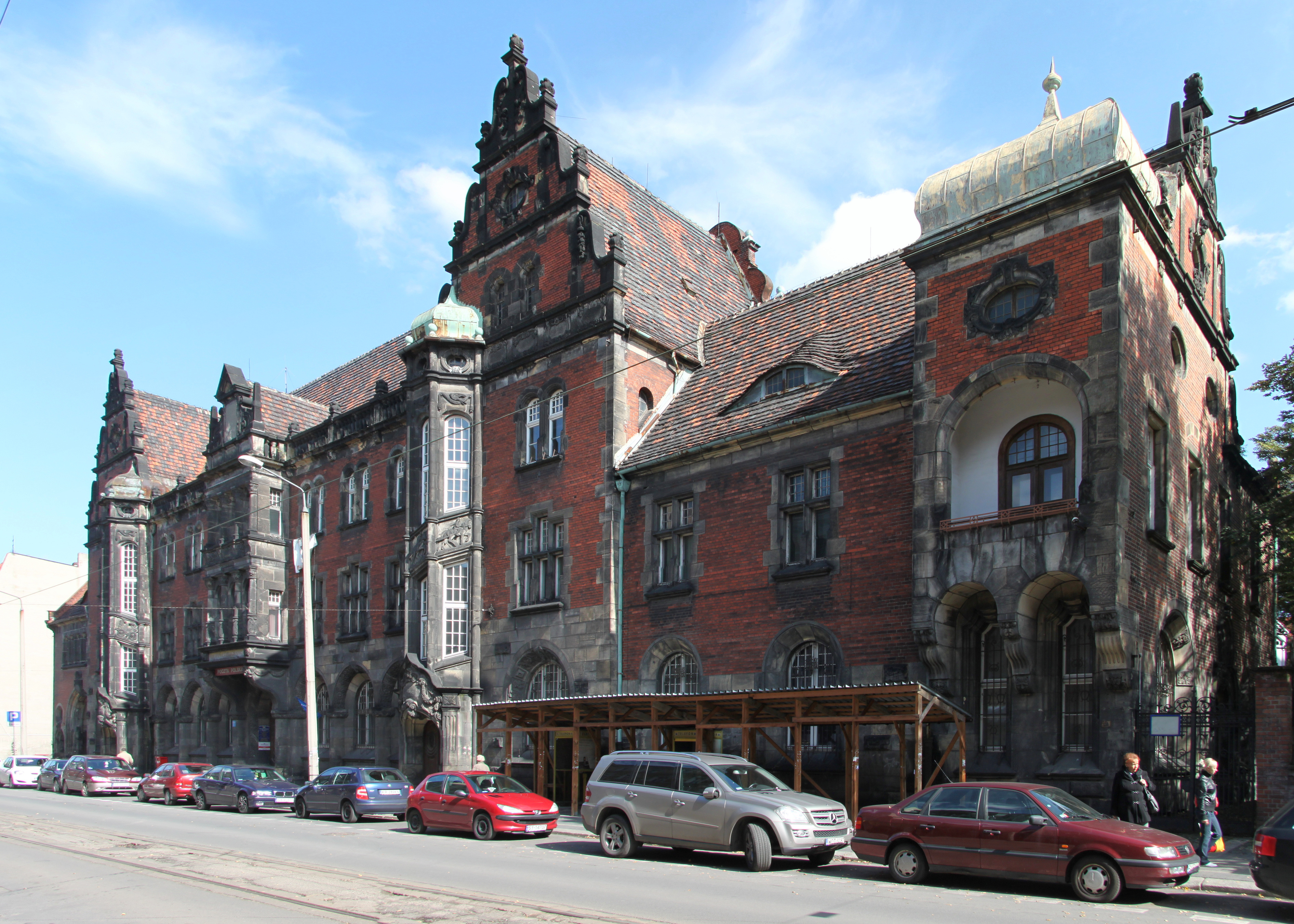 Main post office in Bytom.